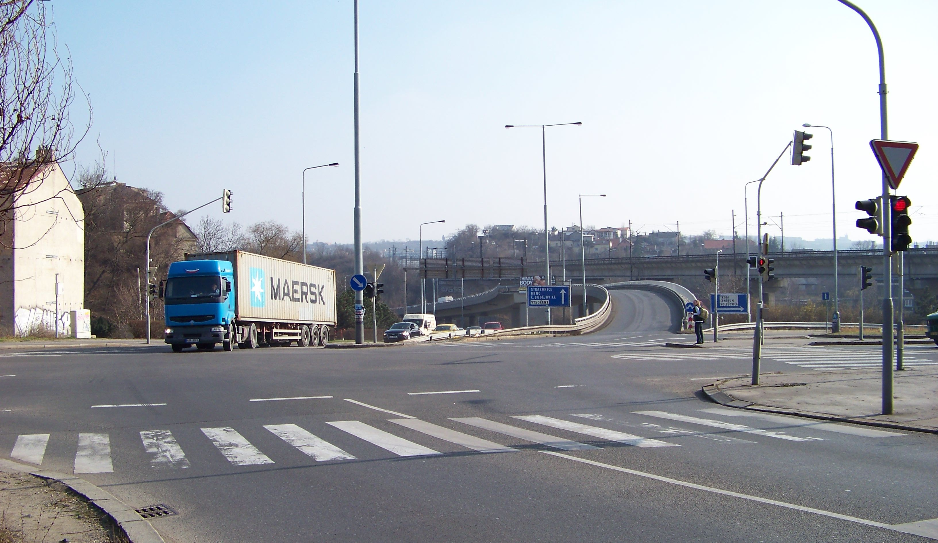 Prague-Libeň, the Czech Republic. Čuprova street, seen from Prosecká street. - OpenStreetMap(Info)